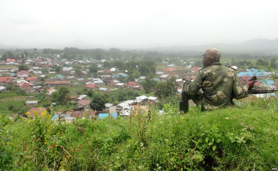 M23 Rebel outside of Bunagana